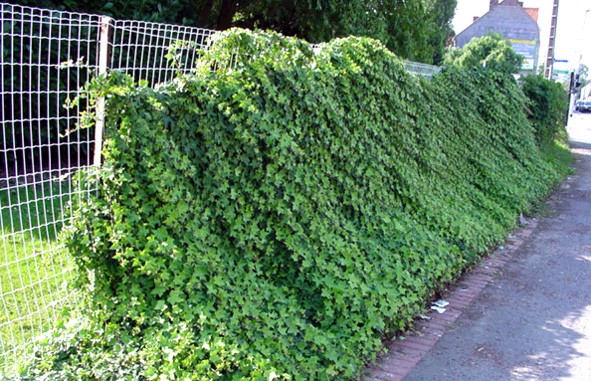 Ivy (Hedera helix) scaling an urban fence in northern France. By climbing the fence, the ivy is making a nex element of the local ecological system, which the fence was a barrier acquires potential functions of small "green biological corridor" or a new habitat for wildlife (ivy home many bird nests and many insects). Now, this closure also produces oxygen. Disadvantage: in growing ivy will literally cover iron material of fence.